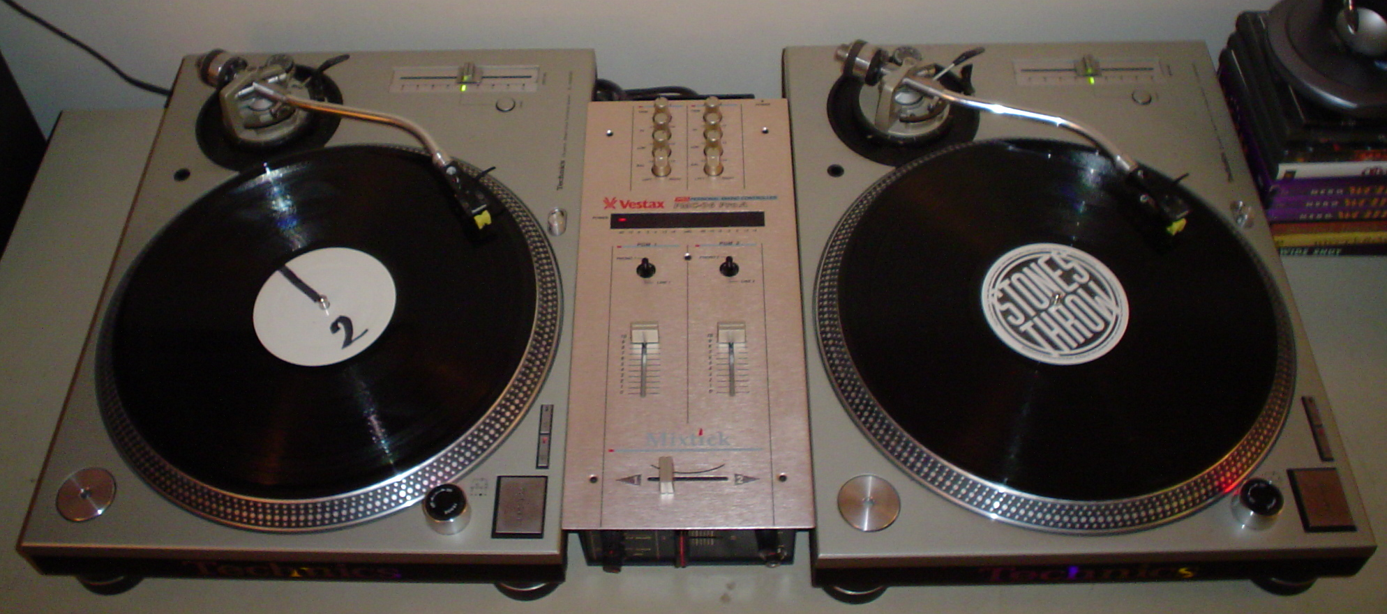 Set of Technics 1200 turntables with a Vestax PMC-06 Pro A mixer, used for turntablism.